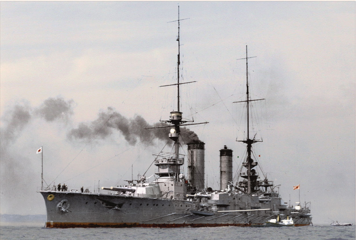 Picture of Japanese battleship Satsuma